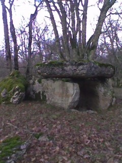 Side view of Dolmen of Gabaudet n°2 in Issendolus (Lot - France)